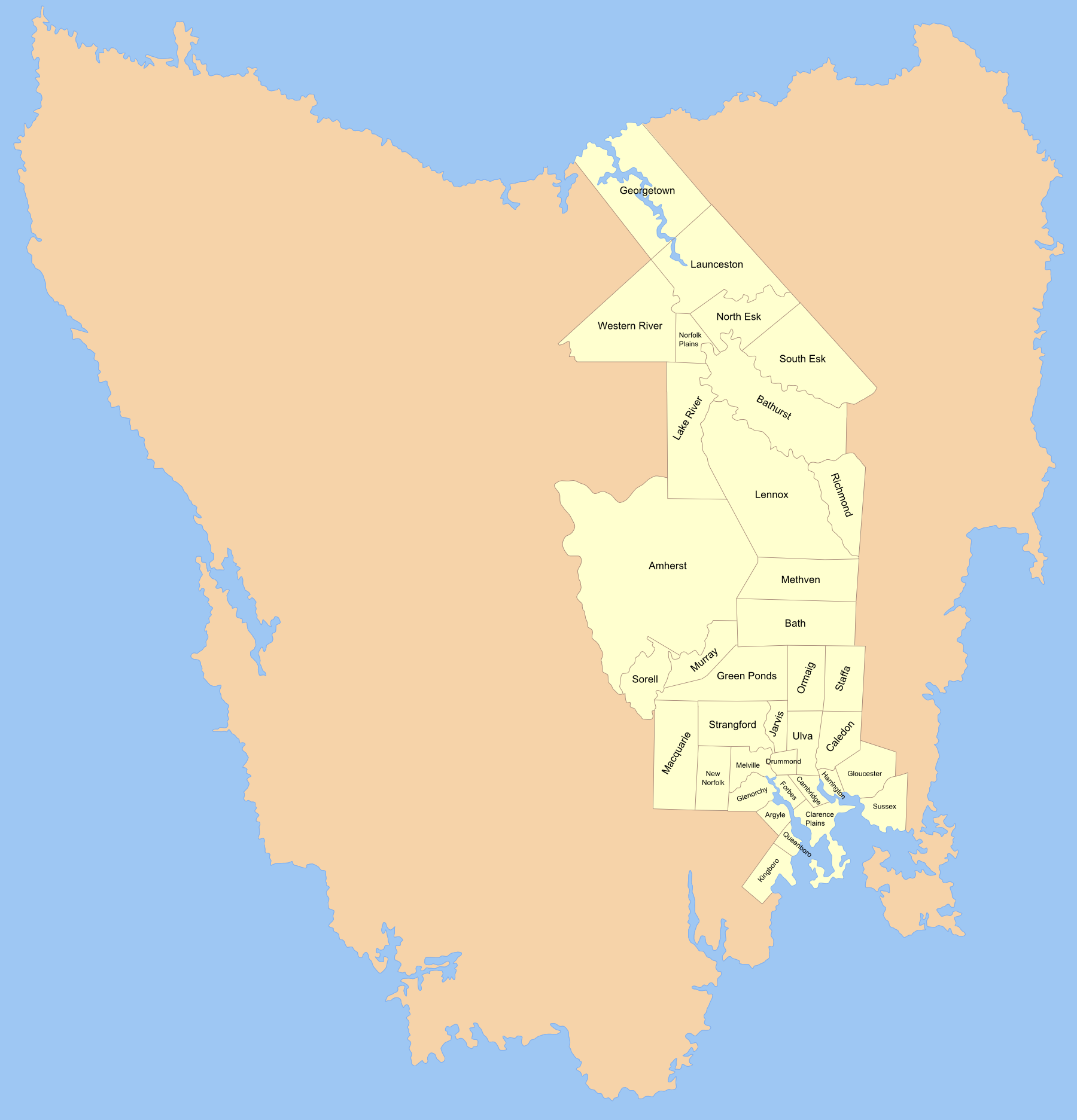 The 36 counties of Van Diemen's Land (tasmania) appearing on old early nineteenth century maps such as 1826 map, 1829 map, 1855 map